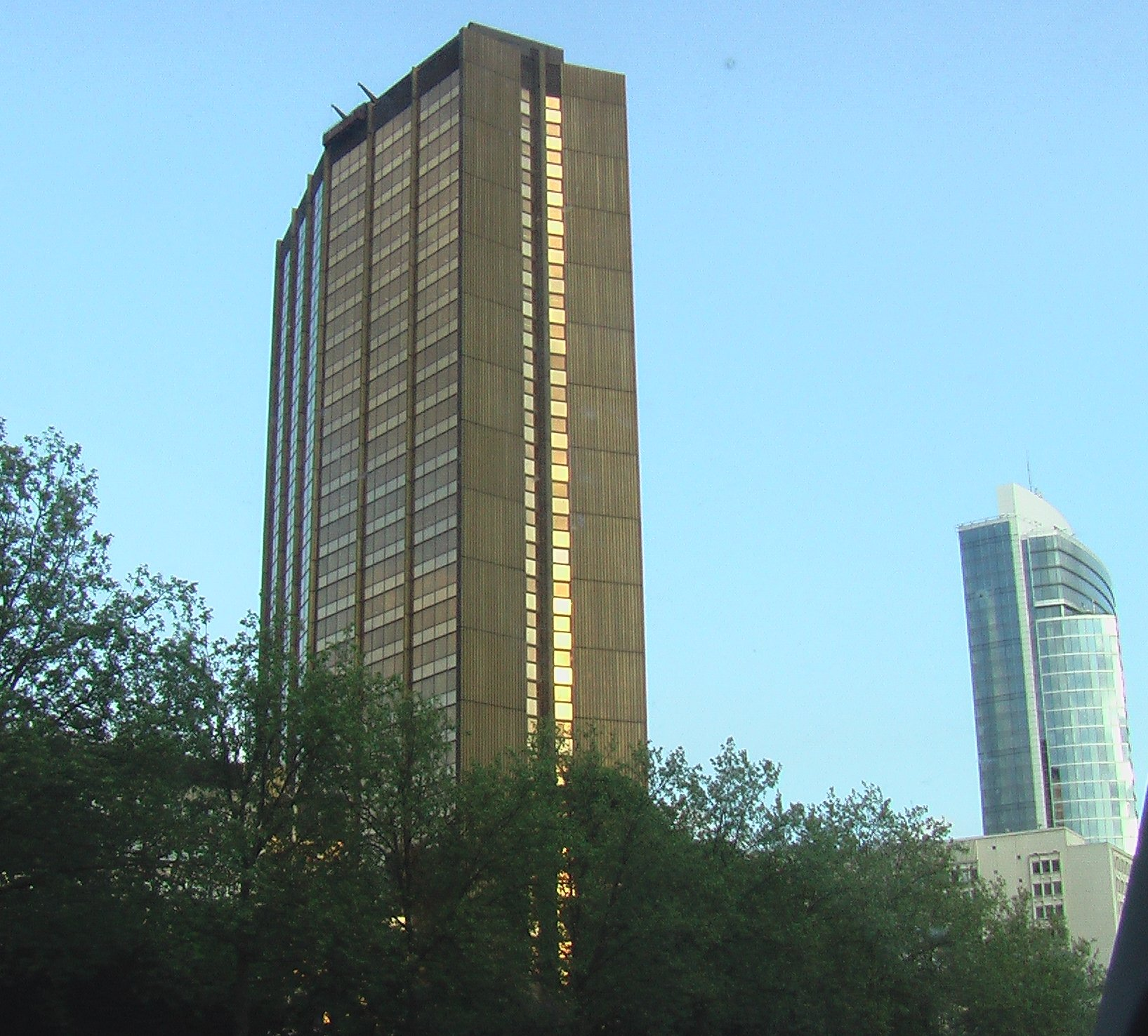 Astro Tower Brussels